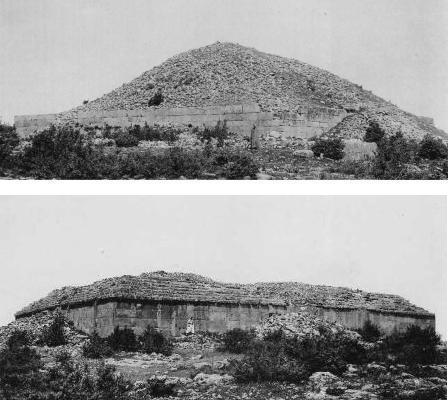 Two jedars at Jabal Lakhdar, Algeria